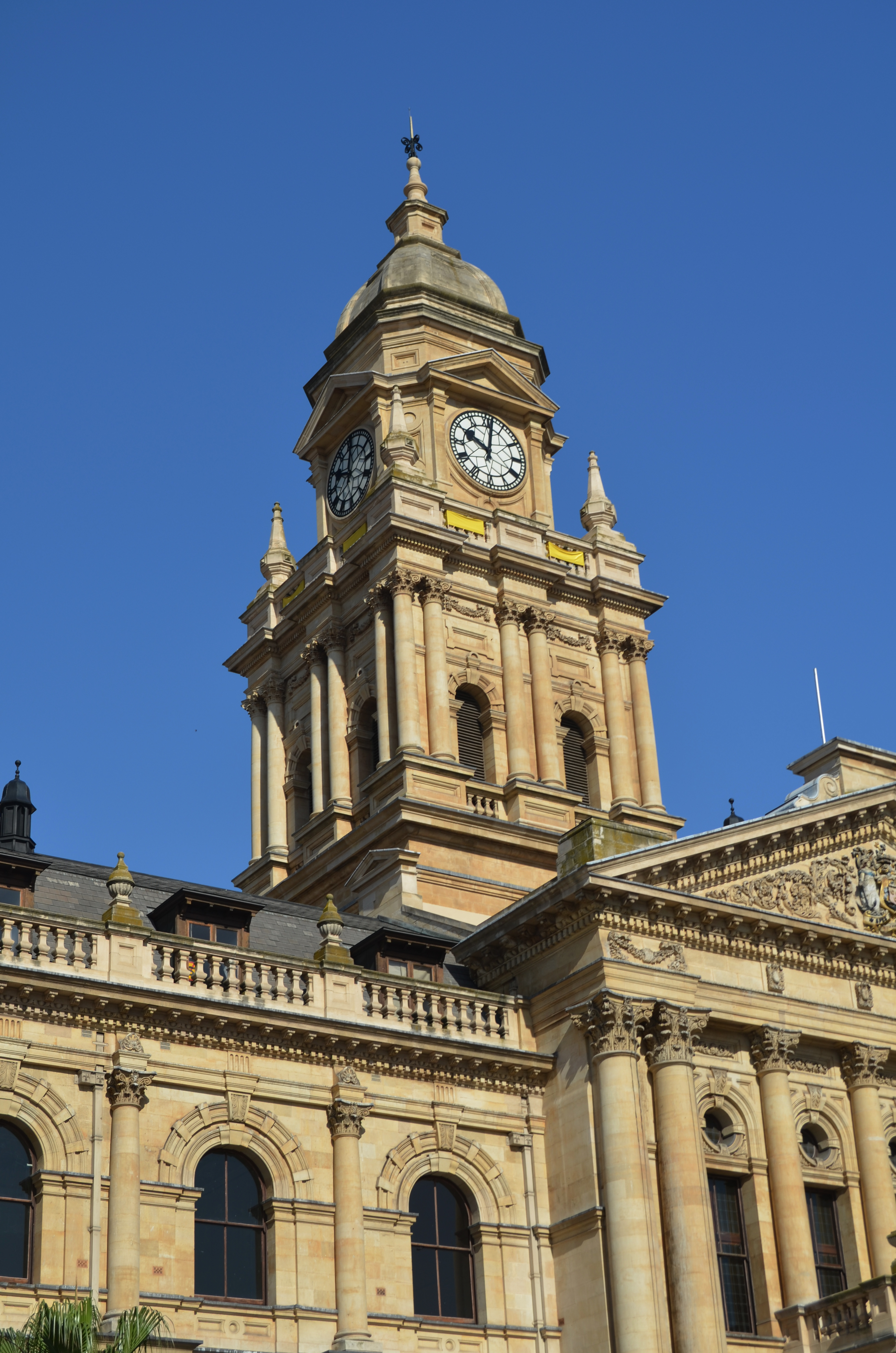 Cape Town City Hall The building was designed as the result of a public competition, the winning architects being Messrs Harry Austin Reid and Frederick George Green, with the contractors being Messrs T. Howard and F. G. Scott. Much of the building material, including fixtures and fittings was imported from Europe. The tower of the City Hall has a Turret Clock which strikes the hours and chimes the Westminster quarters. The faces of the clock are made from 4 skeleton iron dials filled with opal. The clock has a 24 hour wheel and lever. The bells were cast by Messrs John Taylor and Co of Loughborough and the clock was supplied by JB Joyce & Co of Whitchurch. The City Hall's carillon was installed as a World War I war memorial, with 22 additional bells being added in 1925 with the visit of the Prince of Wales. On February 11, 1990, only hours after his release from prison, Nelson Mandela made his first public speech after his release from the balcony of Cape Town City Hall. This media shows a South African Protected Site with SAHRA file reference 9/2/018/0115.